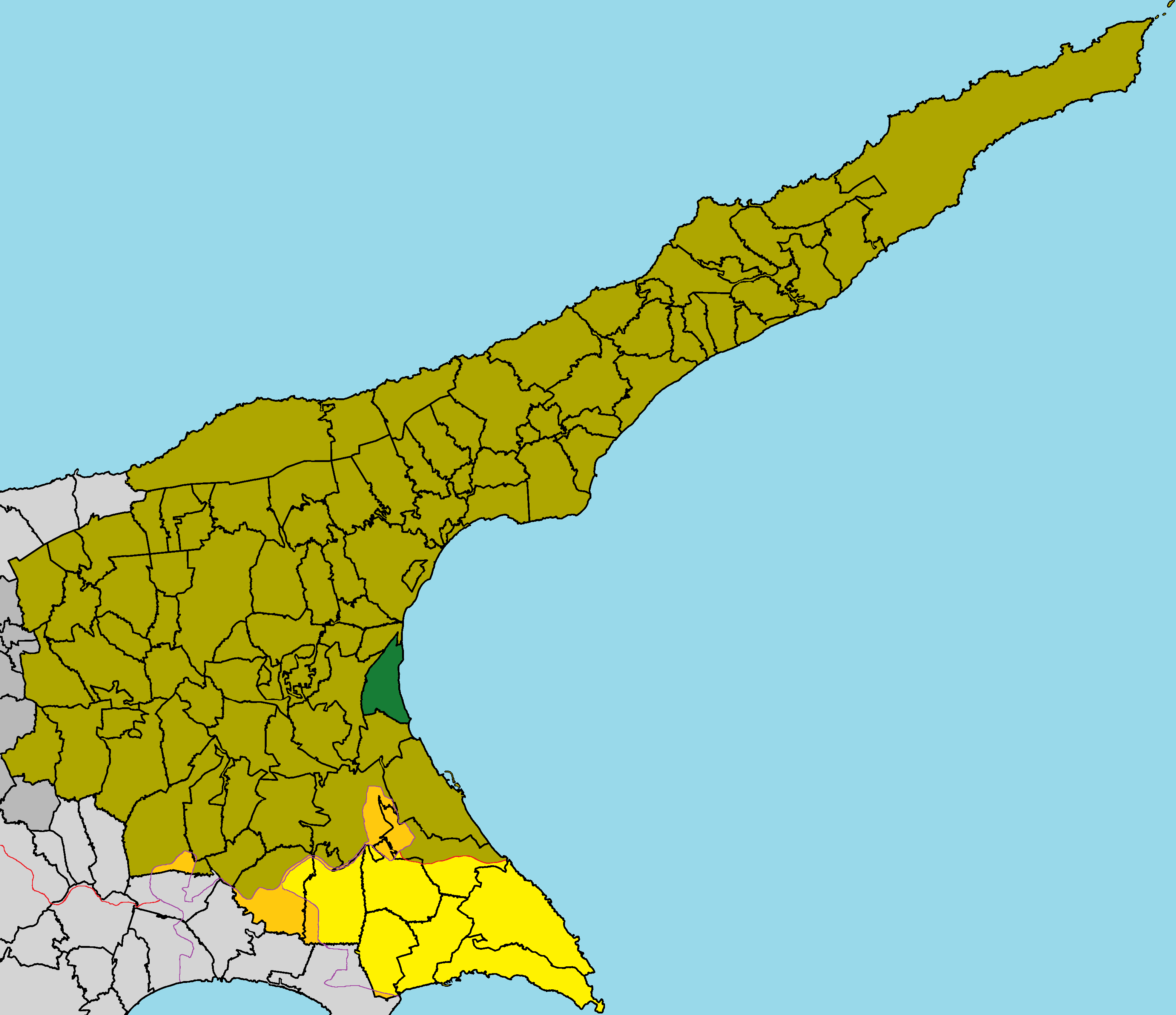 Agios Sergios in Famagusta District (de jure).